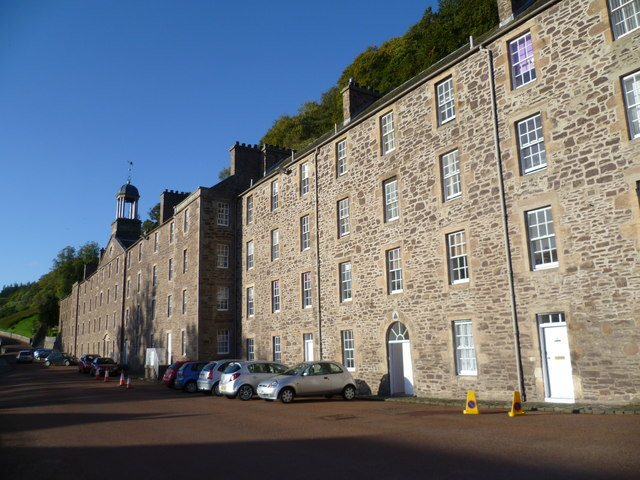 New Buildings and Nursery Buildings, New Lanark